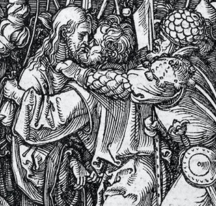 Small Passion: 11. Christ Taken Captive (detail). Thought to be the inspiration behind the central group in Caravaggio's The Taking of Christ.